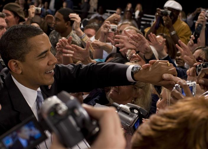 President Barack Obama at a town hall meeting on the American Recovery and Reinvestment Plan in Ft. Myers, Floriday.